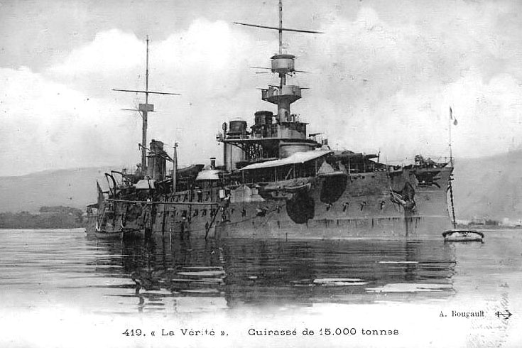 French battleship Vérité